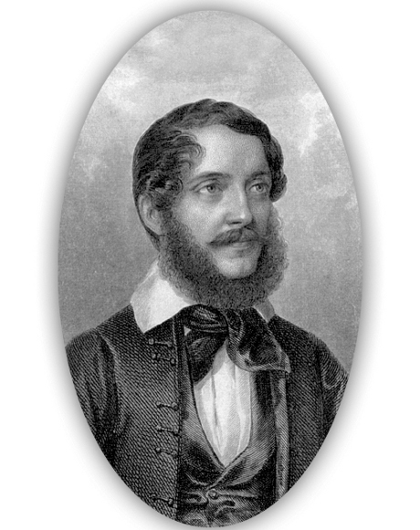 Louis Kossuth in 1838